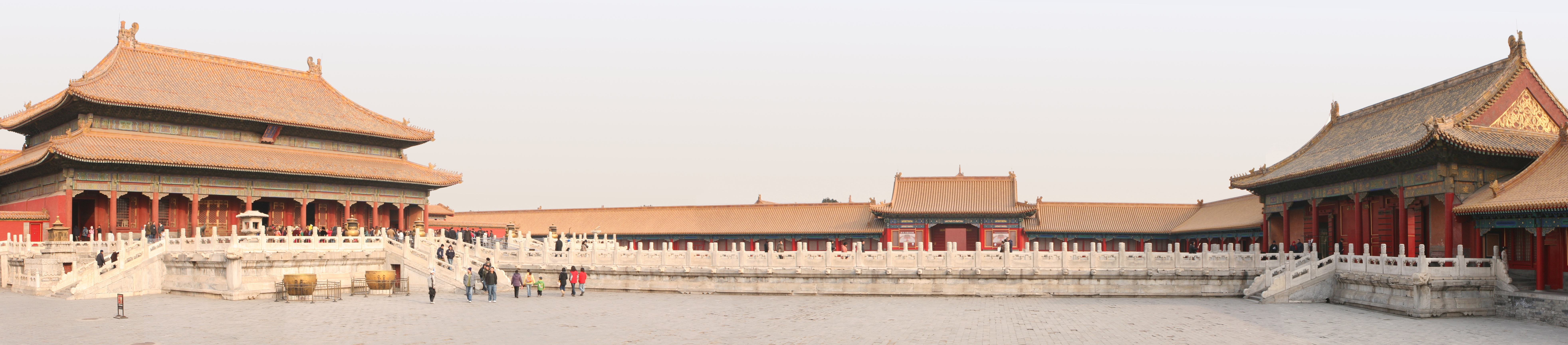 A panoramic view of the Forbidden City in Beijing